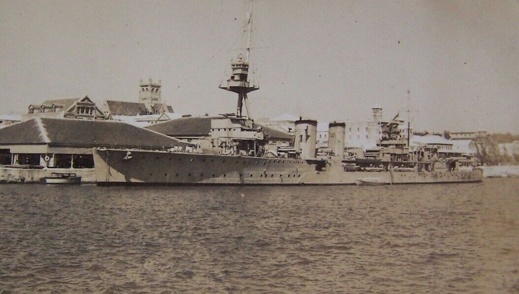 HMS Caradoc (D60) at the City of Hamilton (with the Hamilton Cathedral behind) in Bermuda ca 1928.